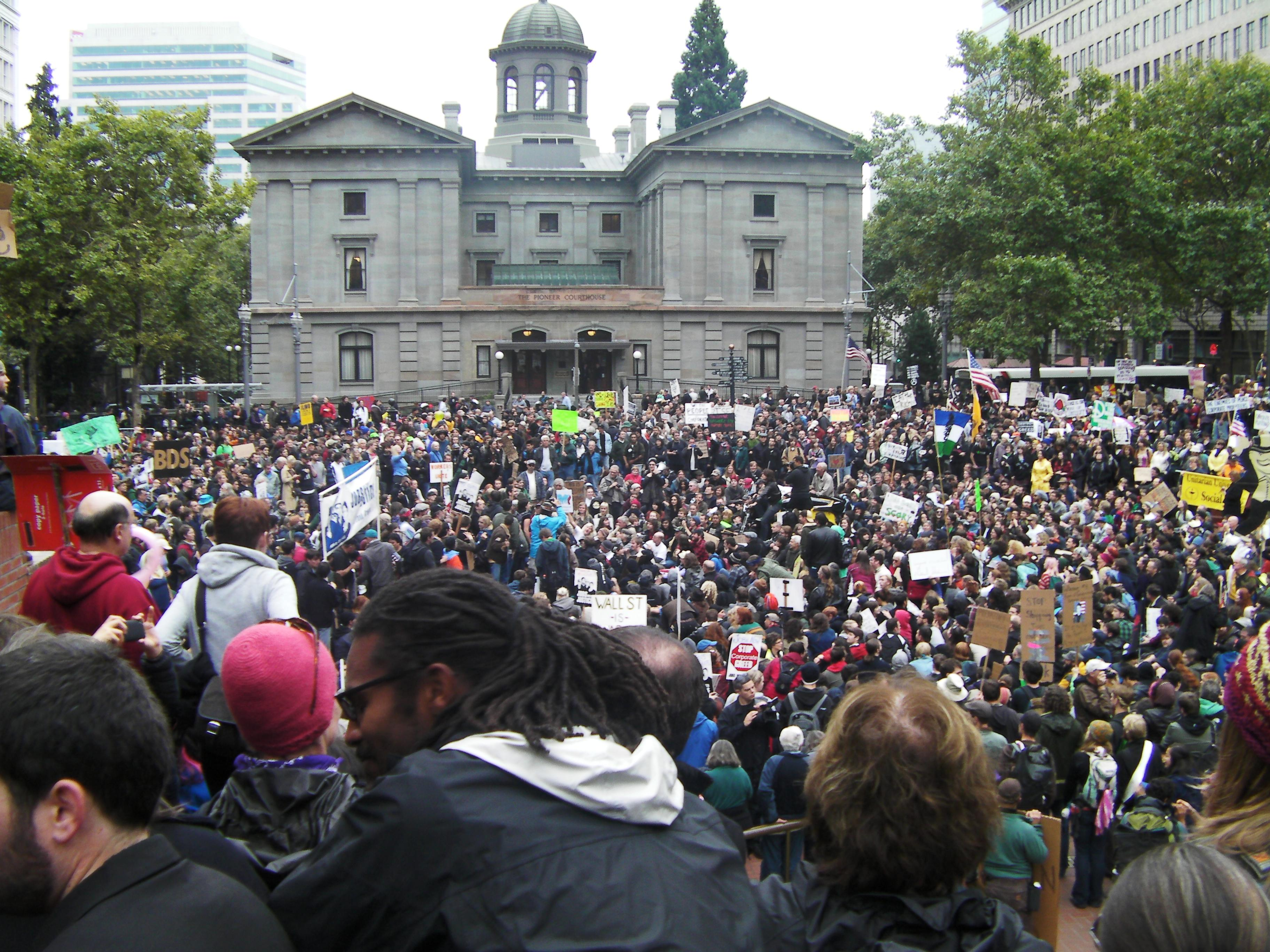 Occupy Portland participants in Pioneer Courthouse Square in Portland, Oregon